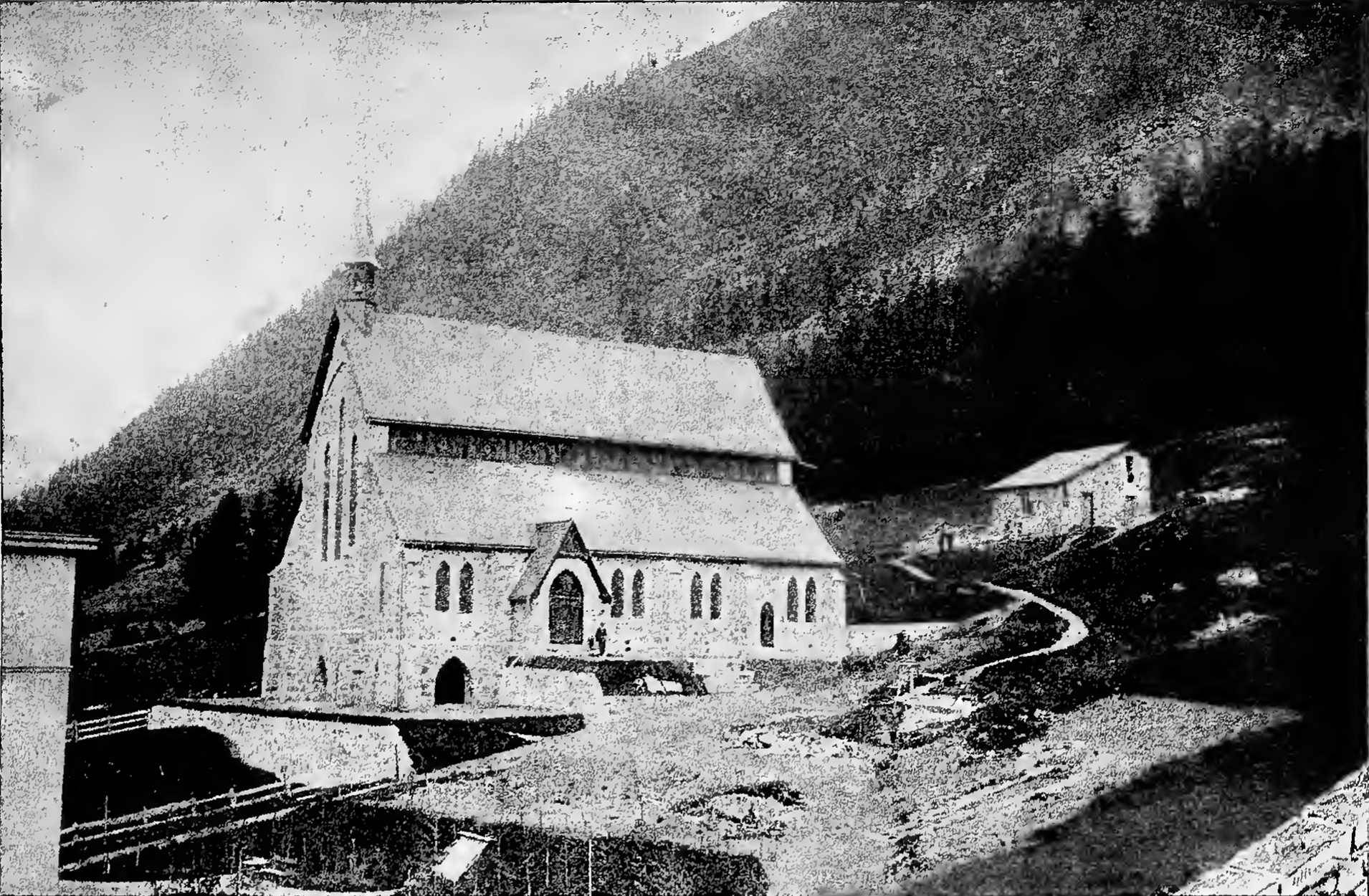 Pontresina, Holy Trinity Church 1882